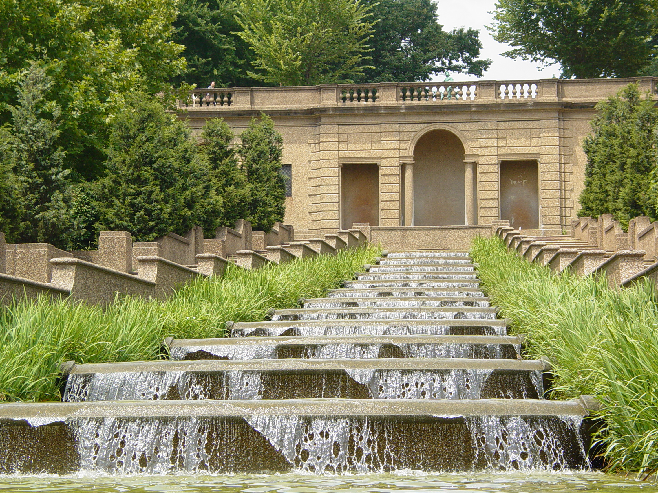 Thirteen-tier fountain at Meridian Hill Park (Malcolm X Park)